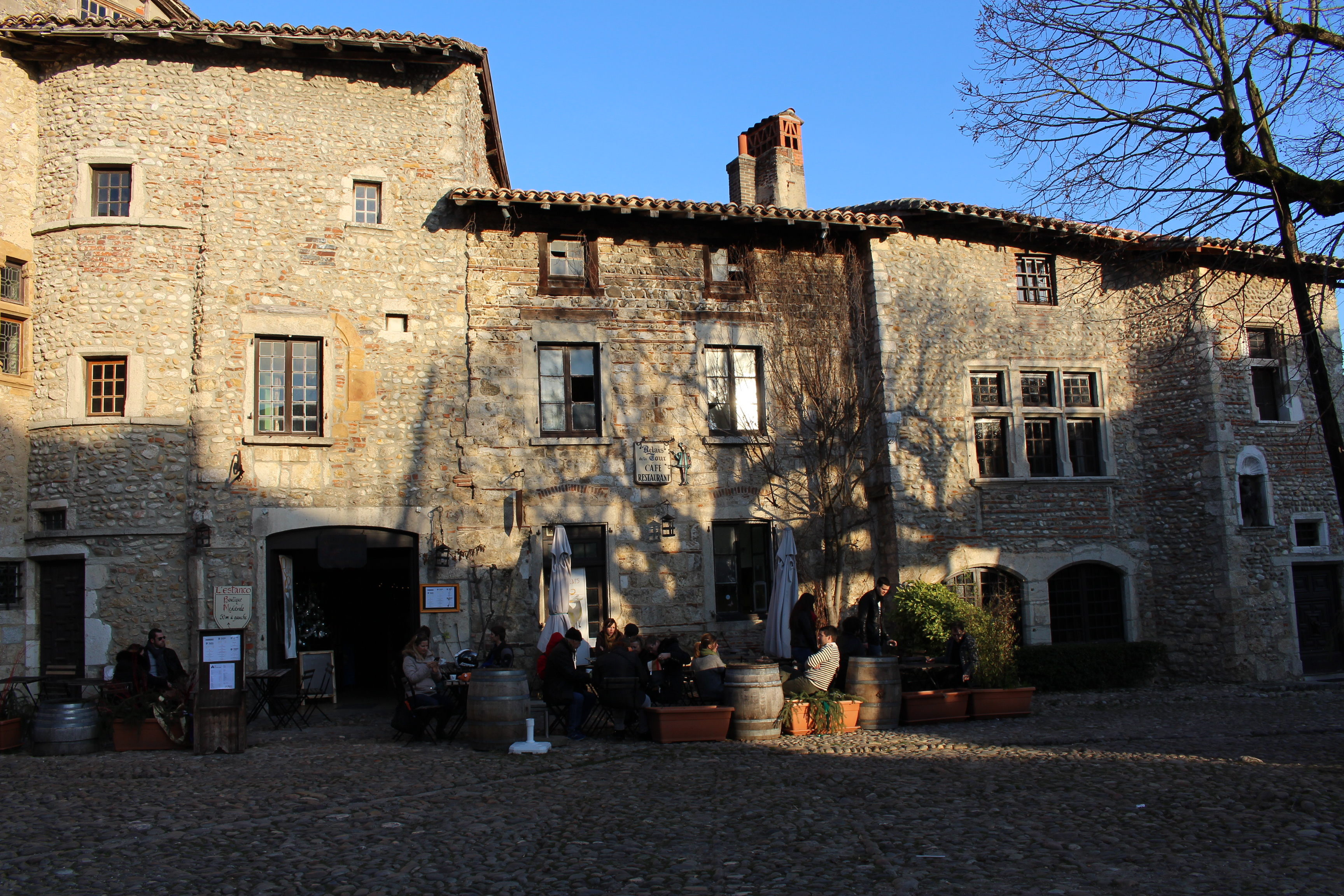 Place de la Halle in the medieval village of Pérouges (France).